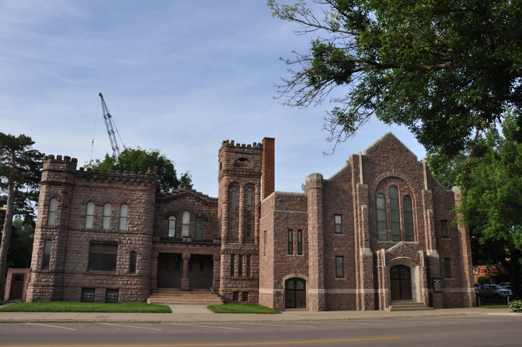 The First Baptist Church of Vermilion, South Dakota.